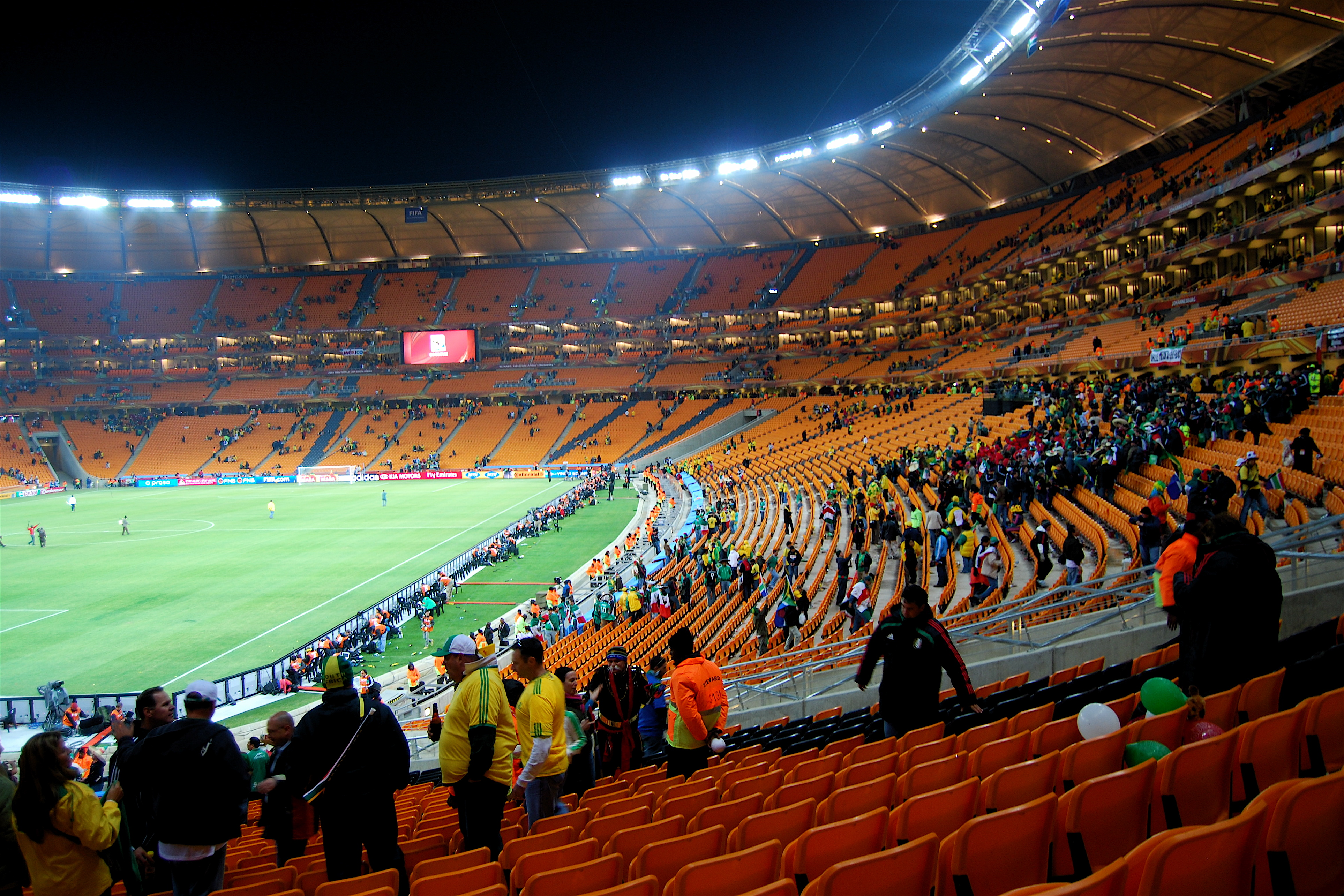 FIrst Match of the Fifa World Cup 2010 - Mexico VS South Africa - In Soccer City, Johannesburg